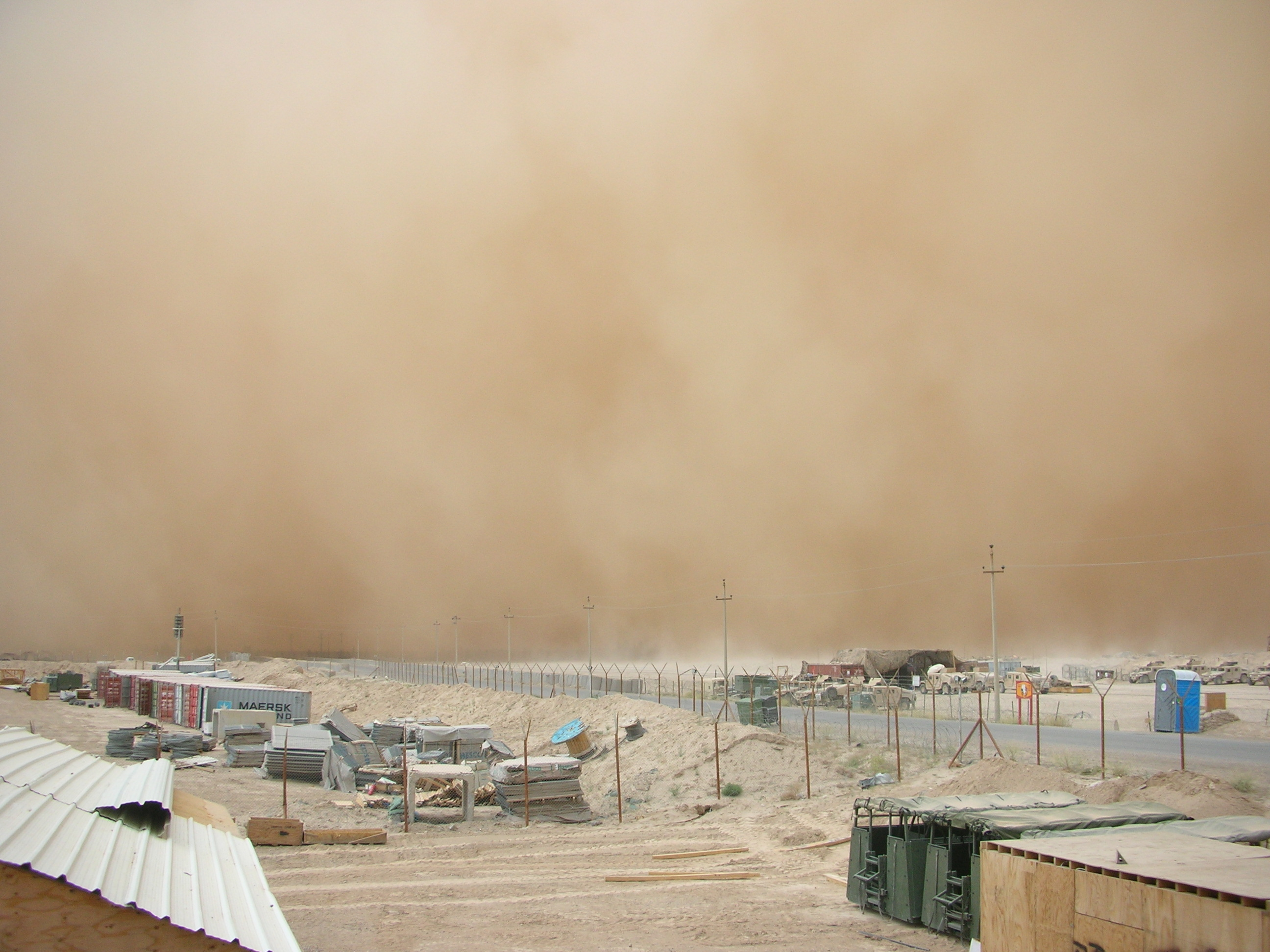 A massive sandstorm rolls through Camp Fallujah, located a few miles east of Fallujah, Iraq.